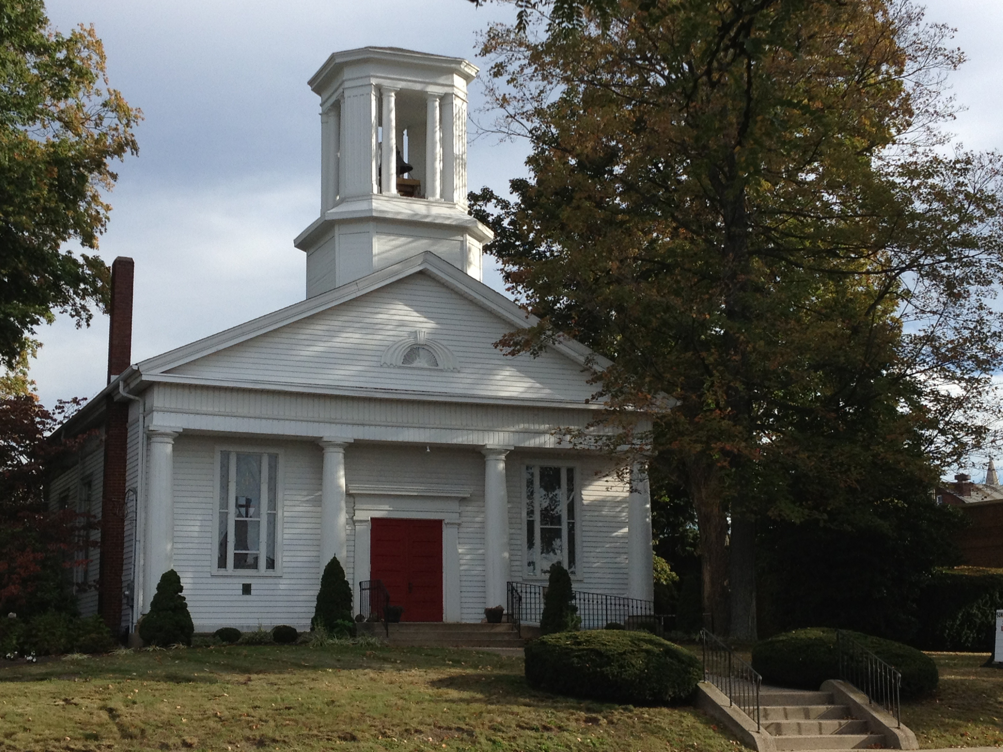 St. Mark